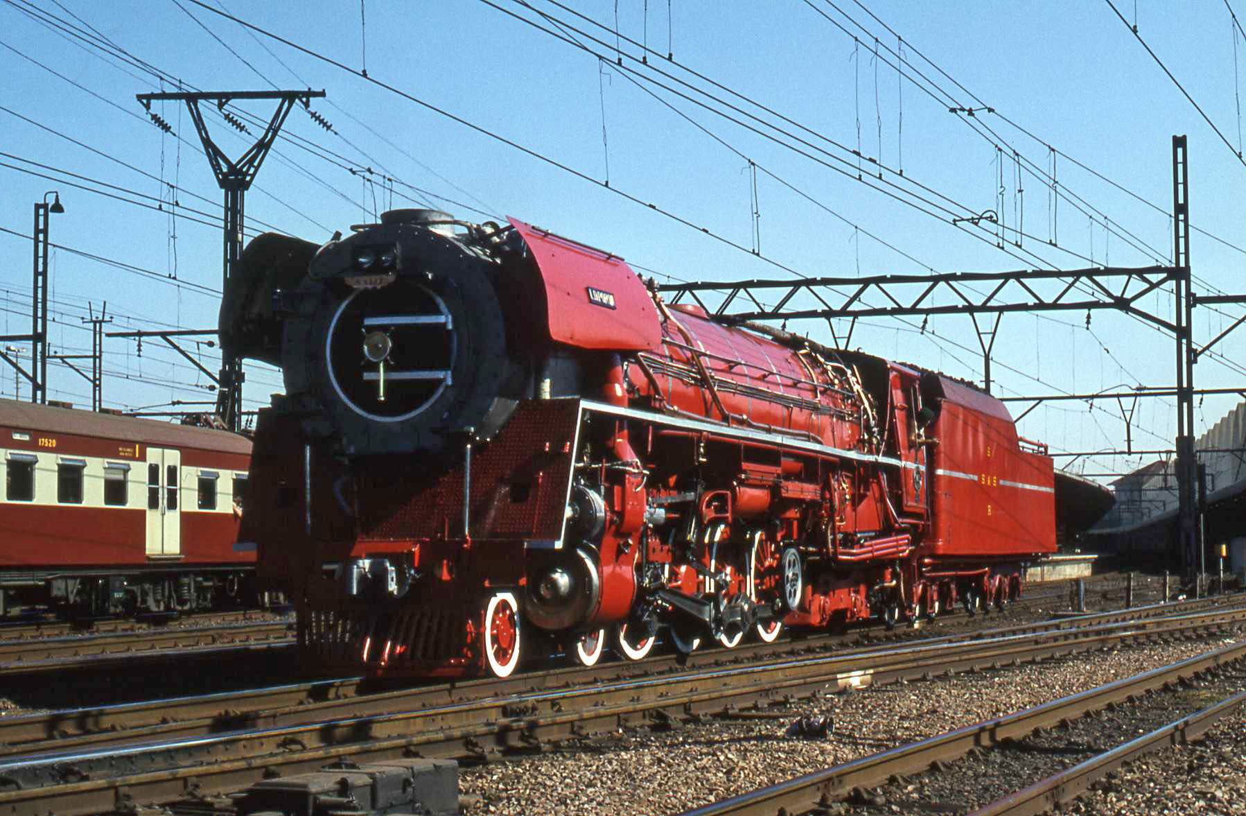 SAR Class 26 3450 (4-8-4)Location: PretoriaThe loco was about to work on day 9 of the RSSA 'Eastern Flyer' which ran from 17th April to 26th April. The day had started with 2749 working 0500 from Magaliesburg to Pretoria where 3450 took over. Departure time from Pretoria was 10:10 and the loco ran via Panpoort to Witbank where arrival was scheduled at 12:51. 15CA 2072 took over at Witbank.